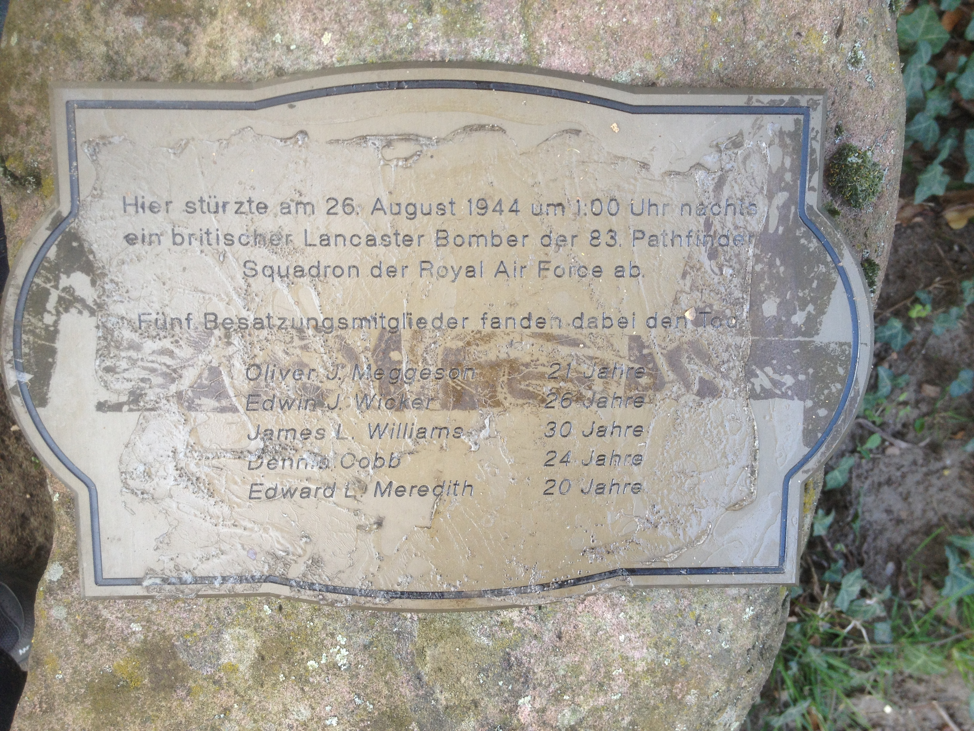 Memorial Stone for a shot down Lancaster bomber of the RAF 83rd Pathfinder Squadron /26 Aug 1944 in Heusenstamm, Germany